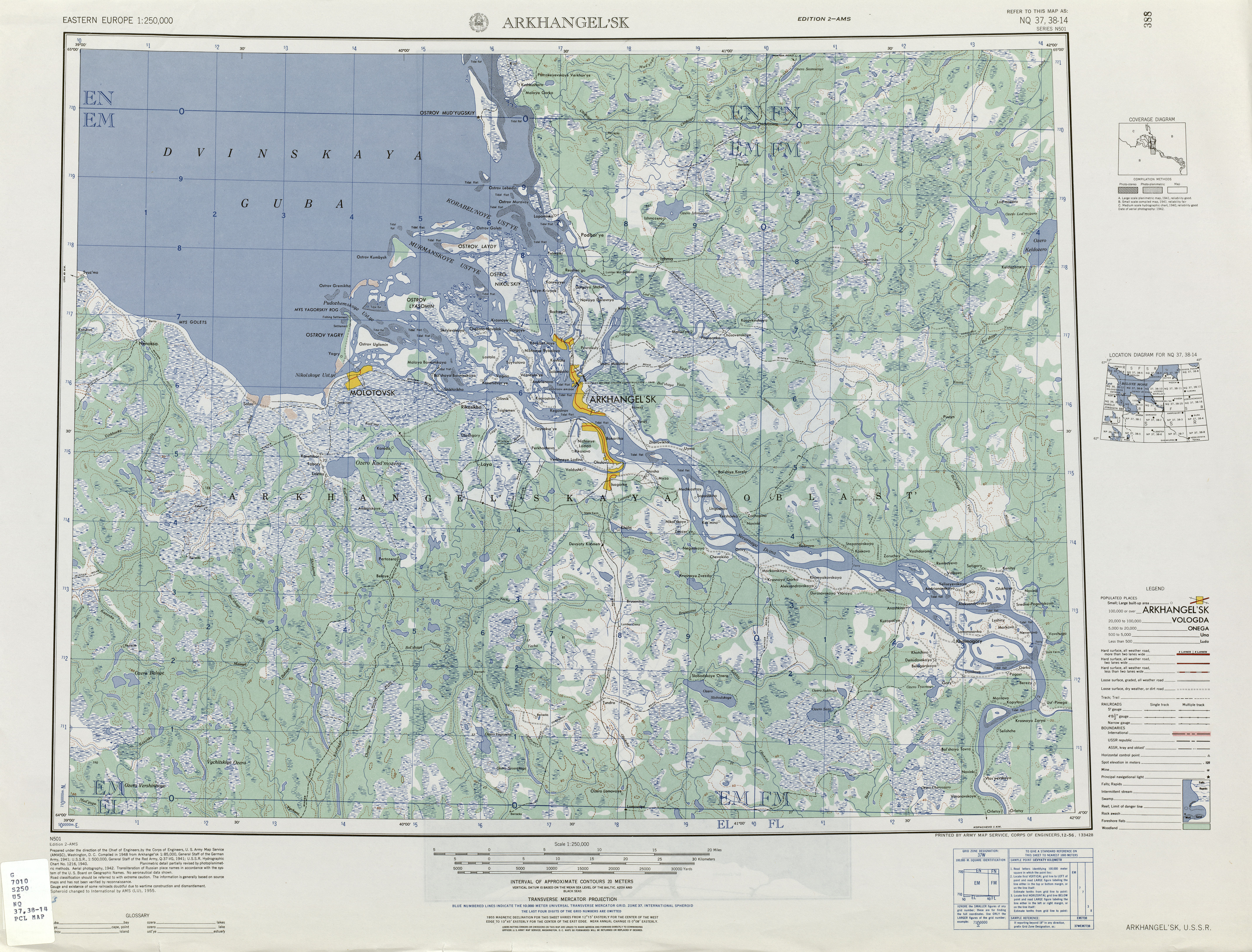 List from Eastern Europe AMS Topographic Maps. Series N501, U.S. Army Map Service, 1954